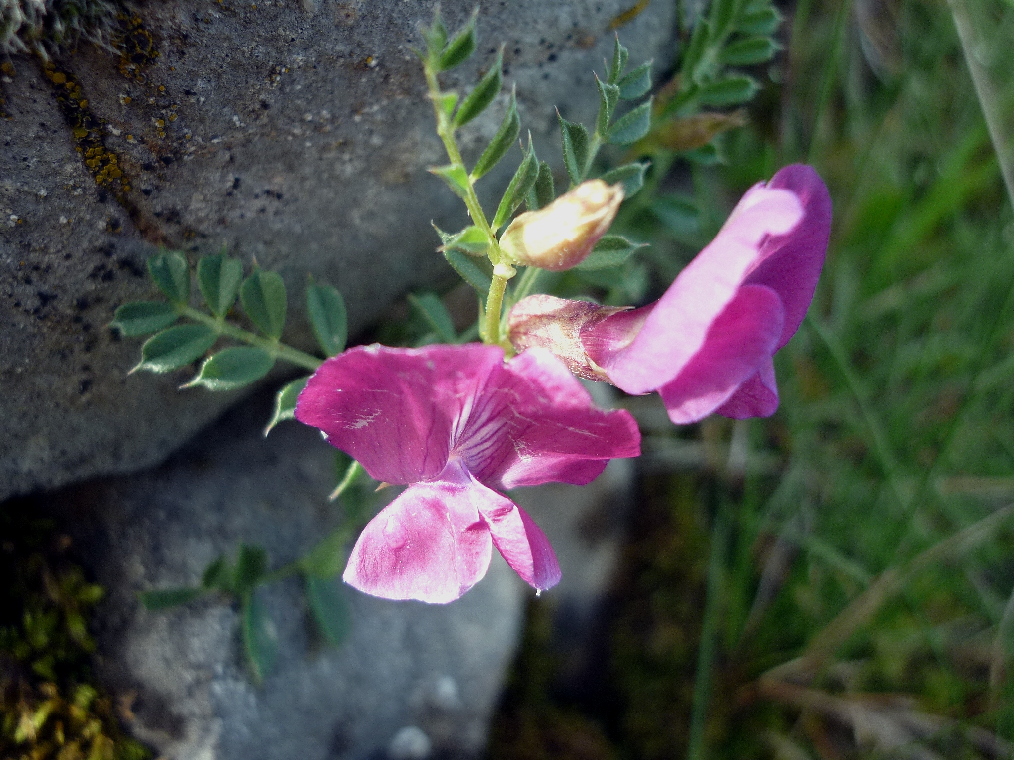 Vicia pyrenaica. In Muntanya d'Alinyà (Alt Urgell-Catalunya). To 1.770 m. altitude